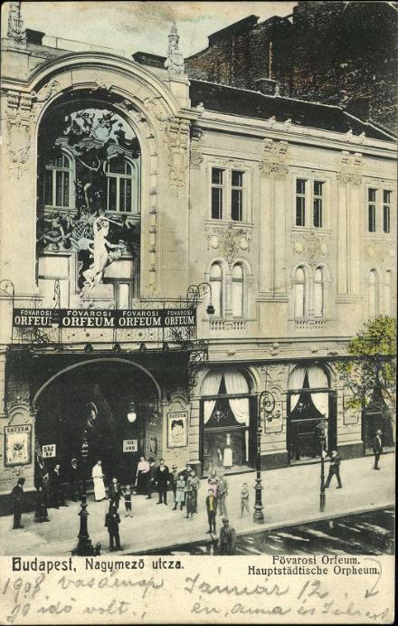 This is the Orfeum of Budapest